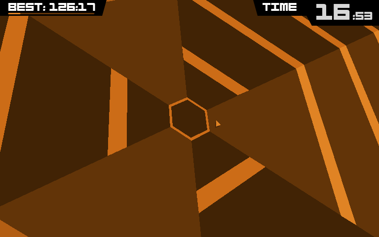 Super Hexagon PC version screenshot, depicting the Hexagon difficulty level. Released in 2012, the game was developed by Terry Cavanagh.